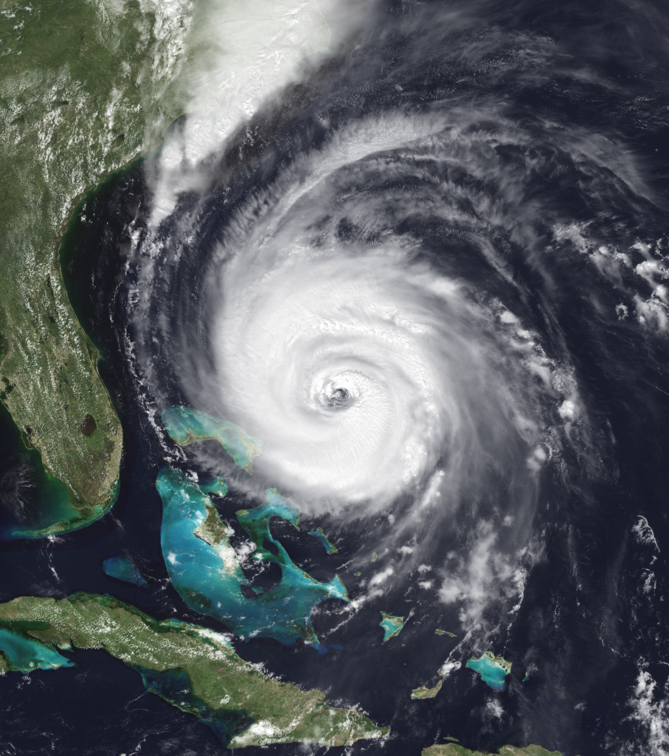 Hurricane Fran near peak intensity on September 4, 1996 at 1700Z